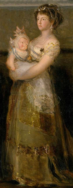 Maria Luisa of Spain, queen of Etruria, with her son Charles Louis